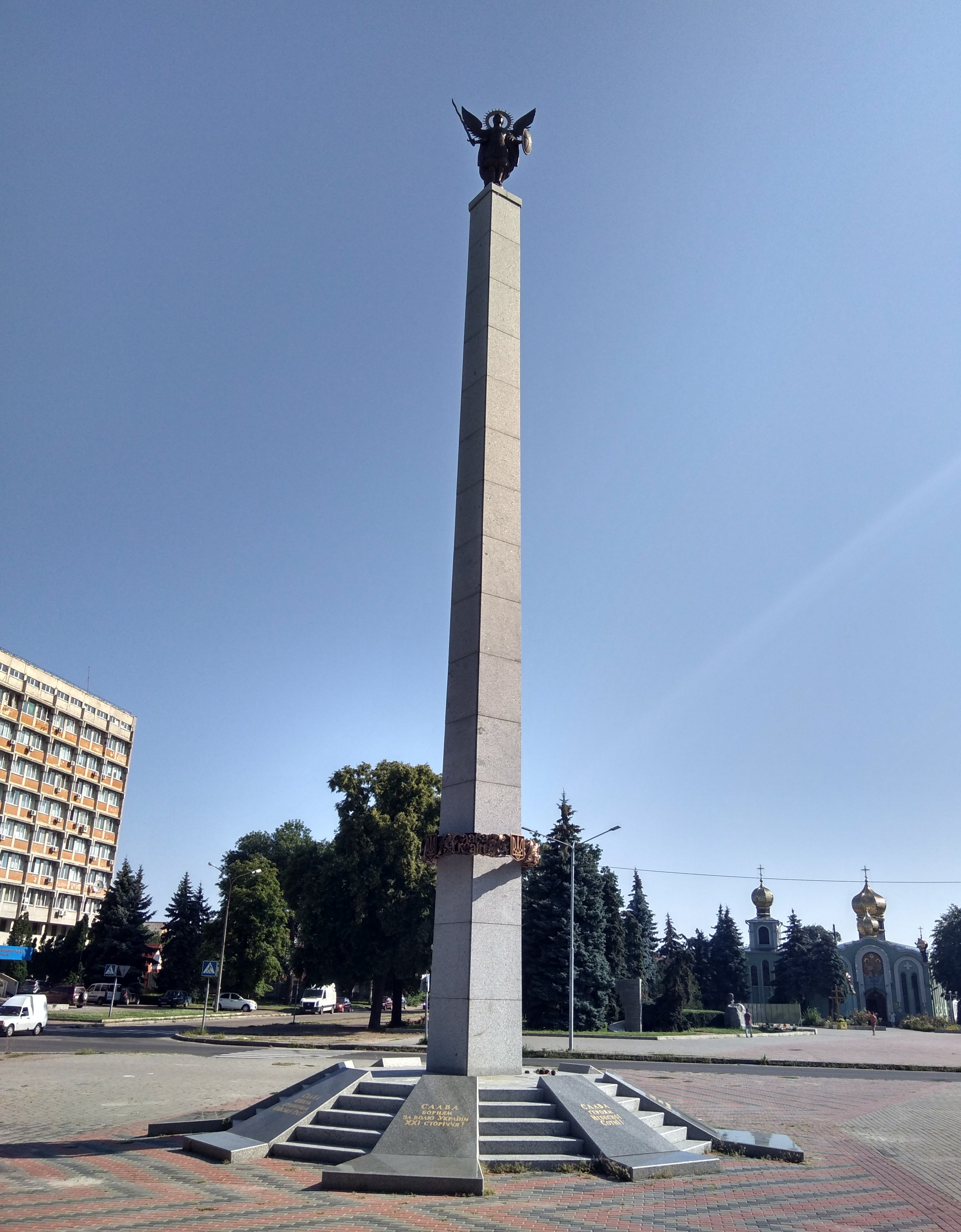 The monument to the memory to fighters for the freedom of Ukraine. Cherkasy, Ukraine